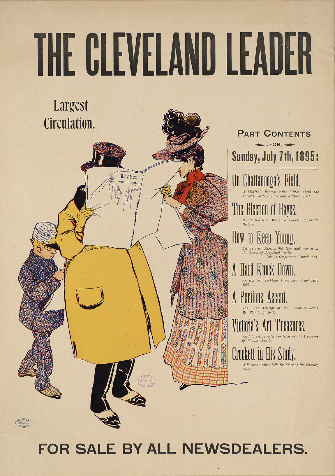 Poster advertising an 1895 issue of the newspaper The Cleveland Leader